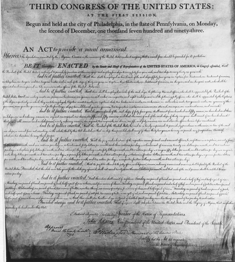 Naval Act of 1794